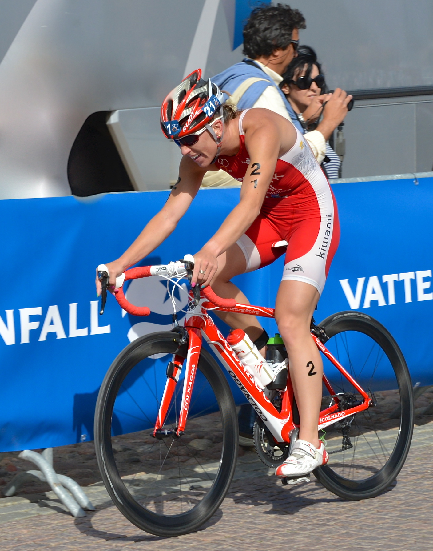 Agnieszka Jerzyk in 2013 ITU World Triathlon Stockholm.